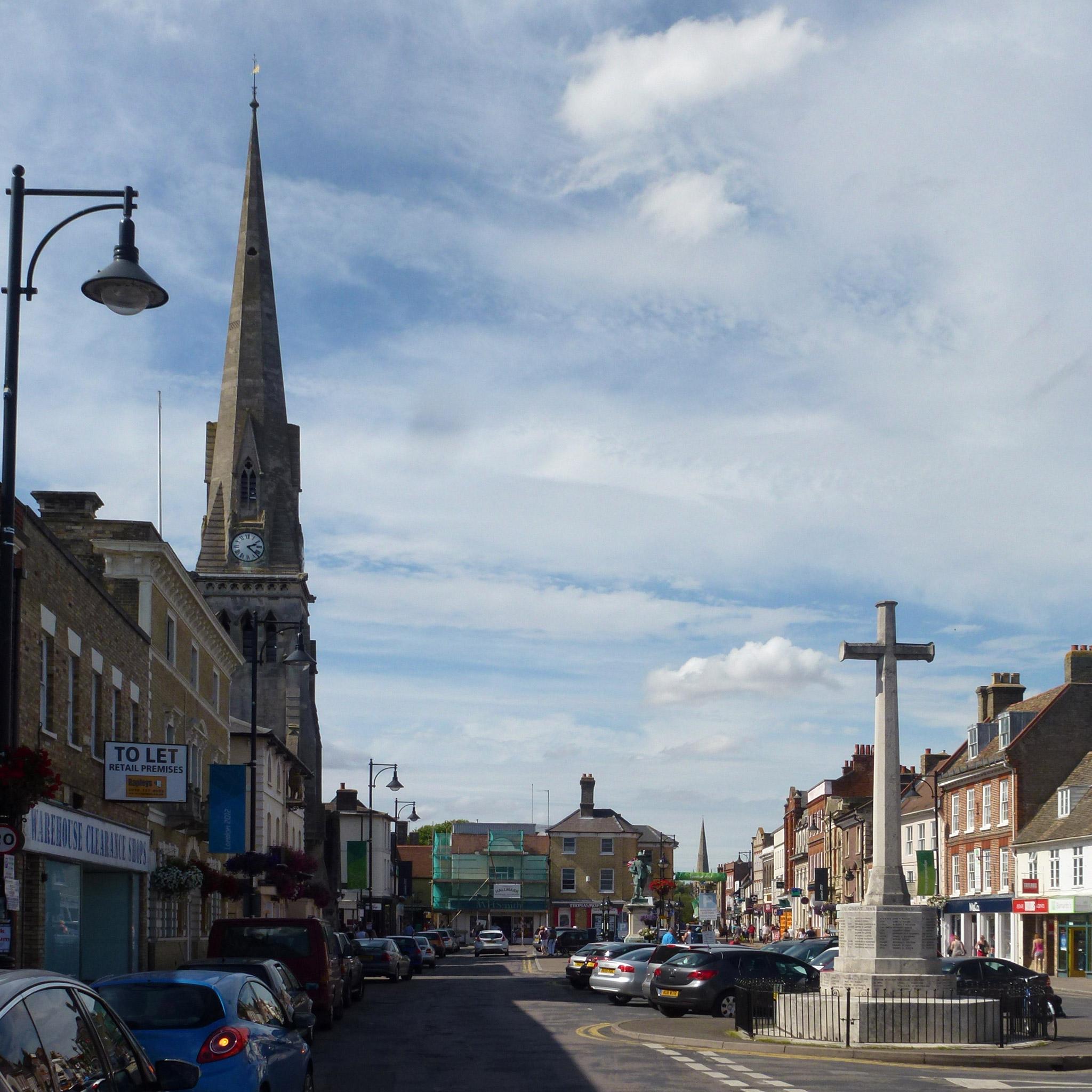 Market Hill, St Ives, Cambridgeshire (formerly Huntingdonshire). On the left is the spire of the free church. On the right is the war memorial.